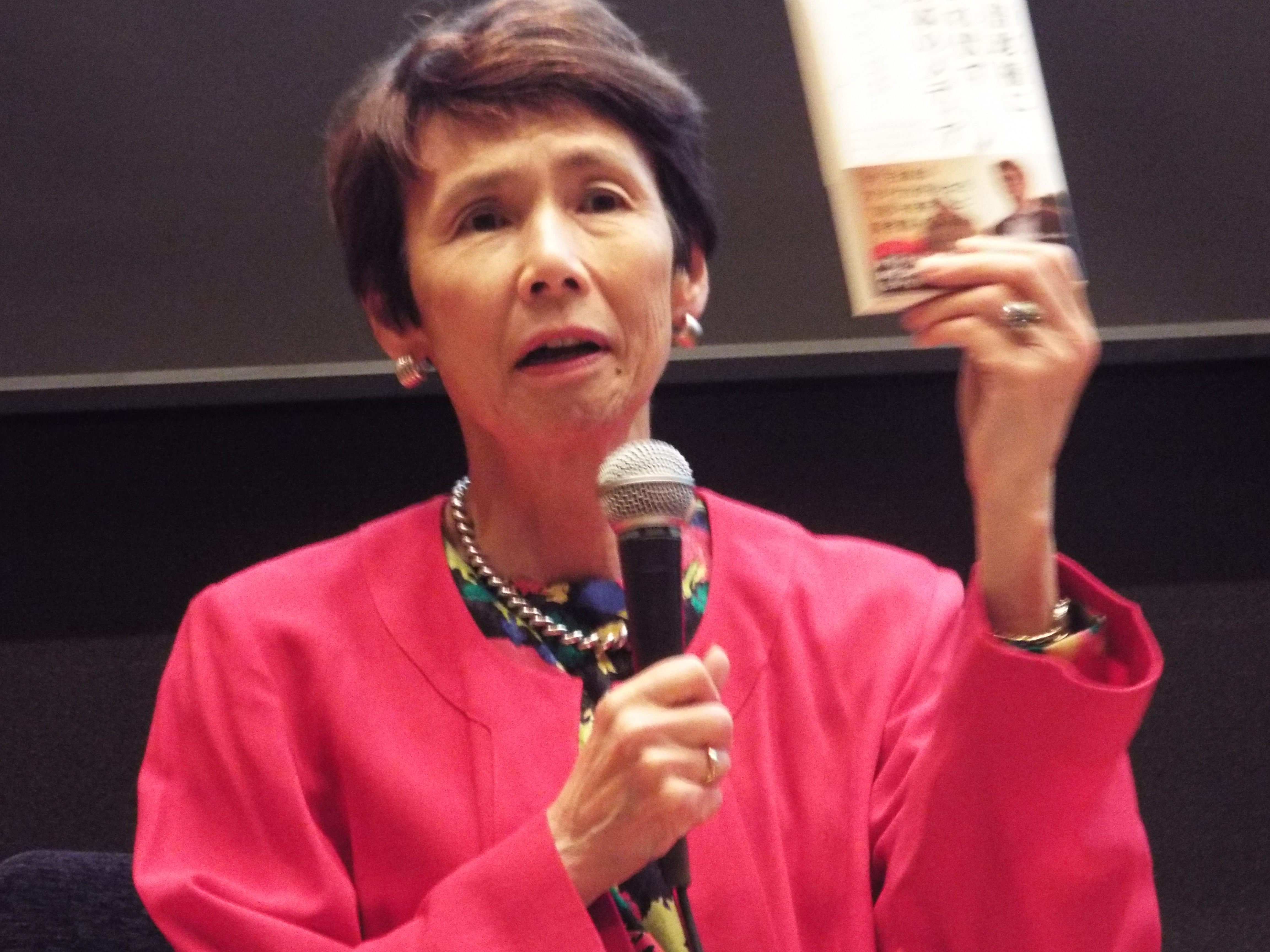 Japanese business scholar. 石倉洋子 Picture taken at "グローバル・アジェンダ・シリーズ2016 日本における「報道の自由」は危機的状況なのか？ NYタイムズ前東京支局長が語る世界における日本のメディア" in Roppongi Hills